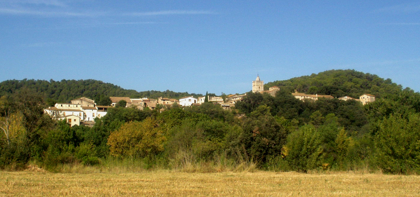 Esponellà, Pla de l'Estany